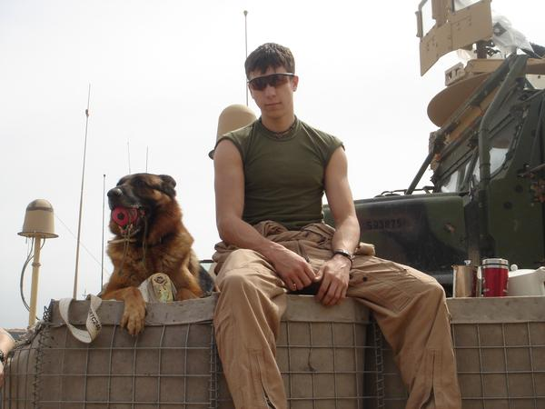 Taken while in Iraq. Marine K9 Lex with Cpl Dustin J. Lee